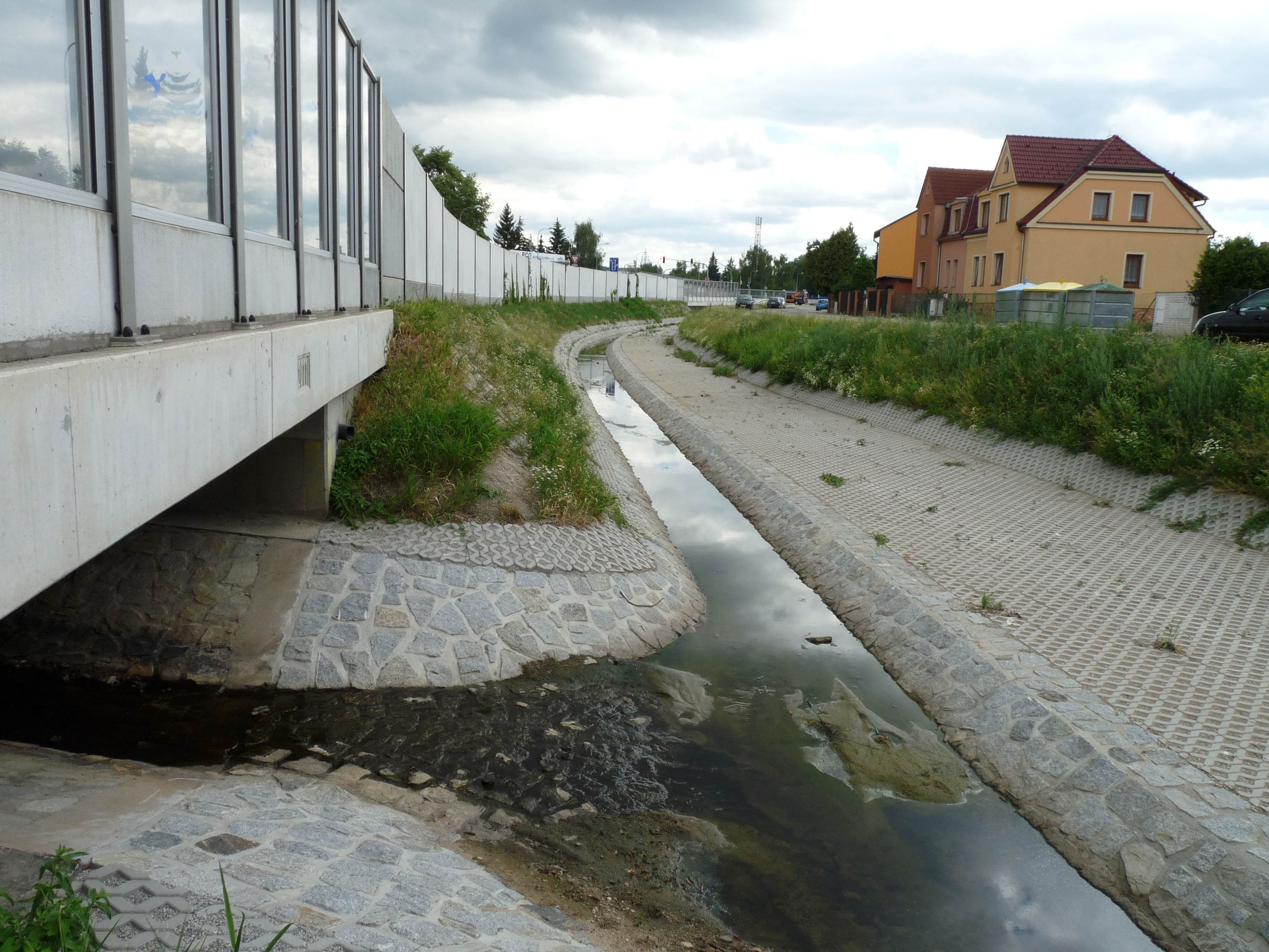 Confluence of two streams in České Budějovice.